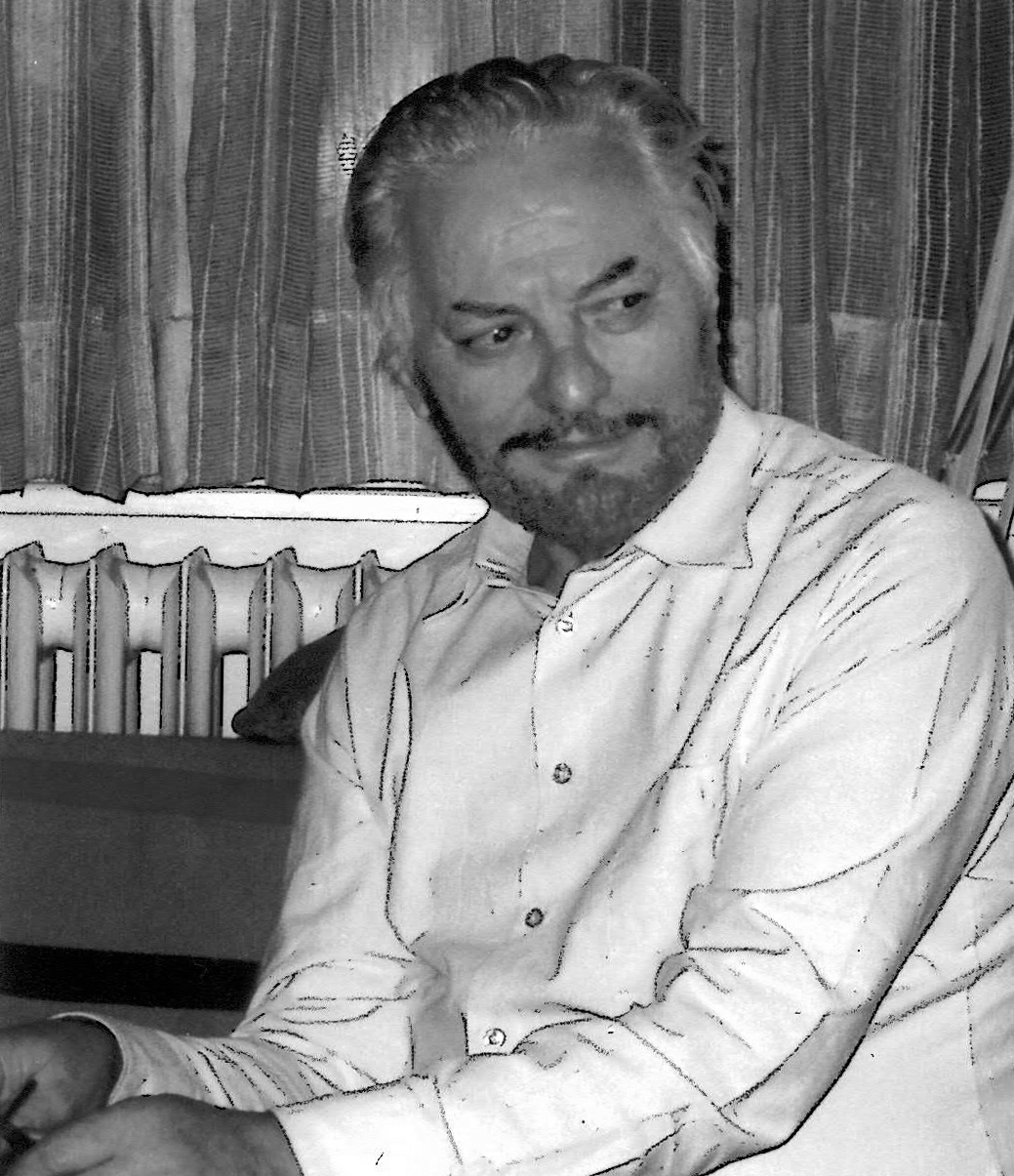 Artist Rudolf Matutinović